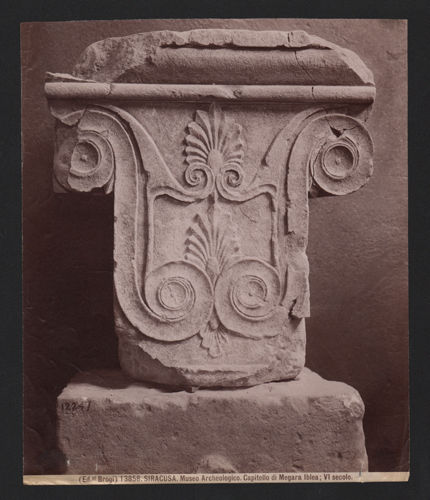 Carlo Brogi (1850-1925) - "Syracuse, Archaeologial museum. Capital from Megara Hyblaea, 6th century BC". Catalogue # 13858.